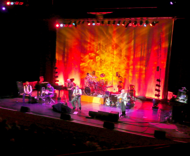 Rock concert at The Hexagon The band are Jethro Tull, performing an acoustic number.